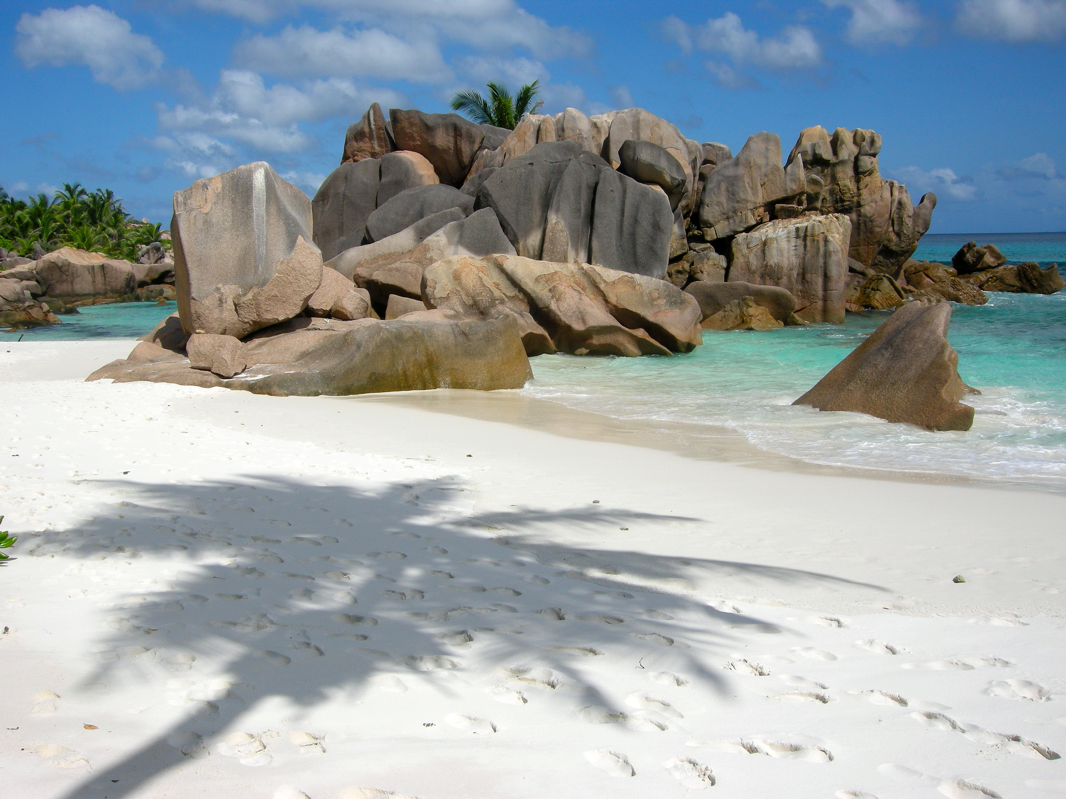 The beautiful beach of "Anse Cocos", La Digue, Seychelles.